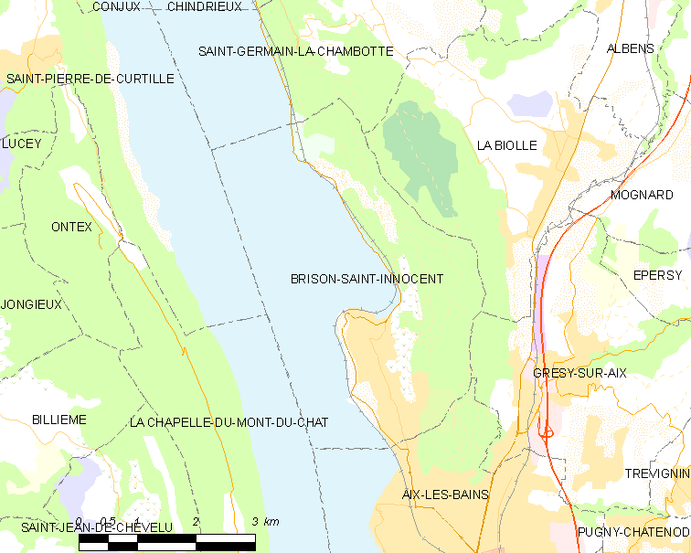 Map of French municipality